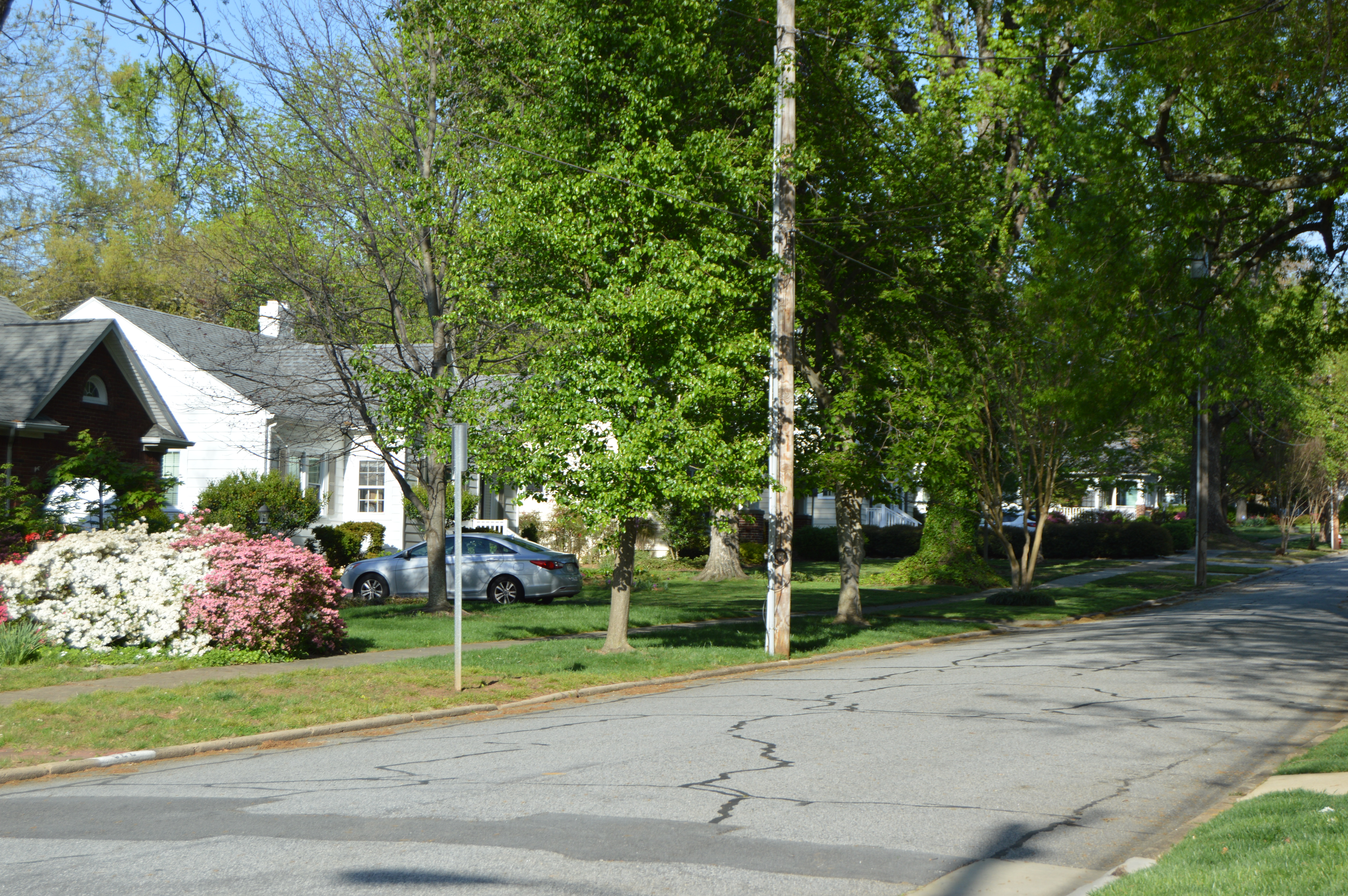 Northern side of Otteray Avenue, east of Hurdover Street, in High Point, North Carolina, United States. This block is part of the Uptown Suburbs Historic District, a historic district that is listed on the National Register of Historic Places.